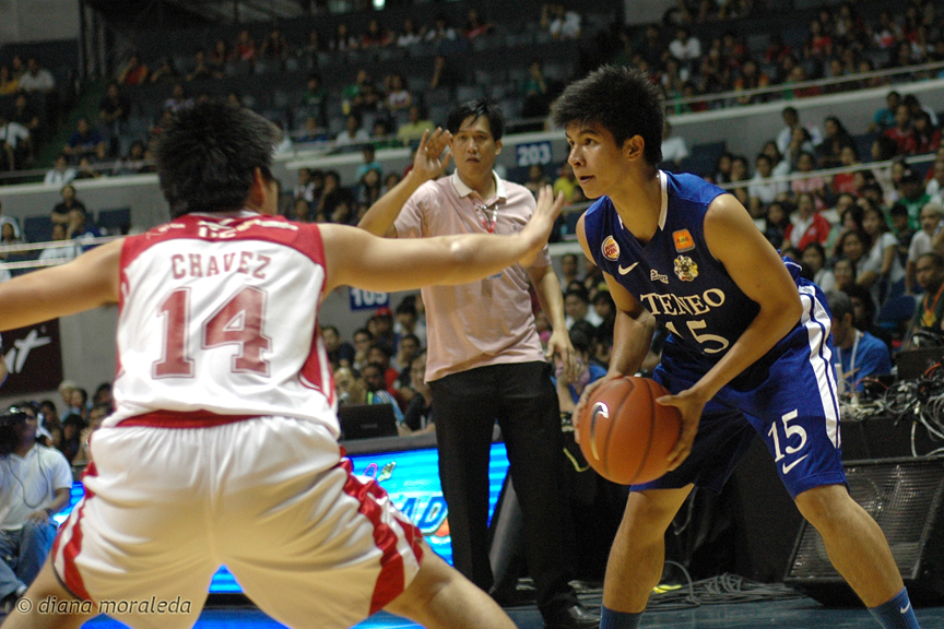 UAAP Season 74: Ateneo Blue Eagles vs. UE Red Warriors